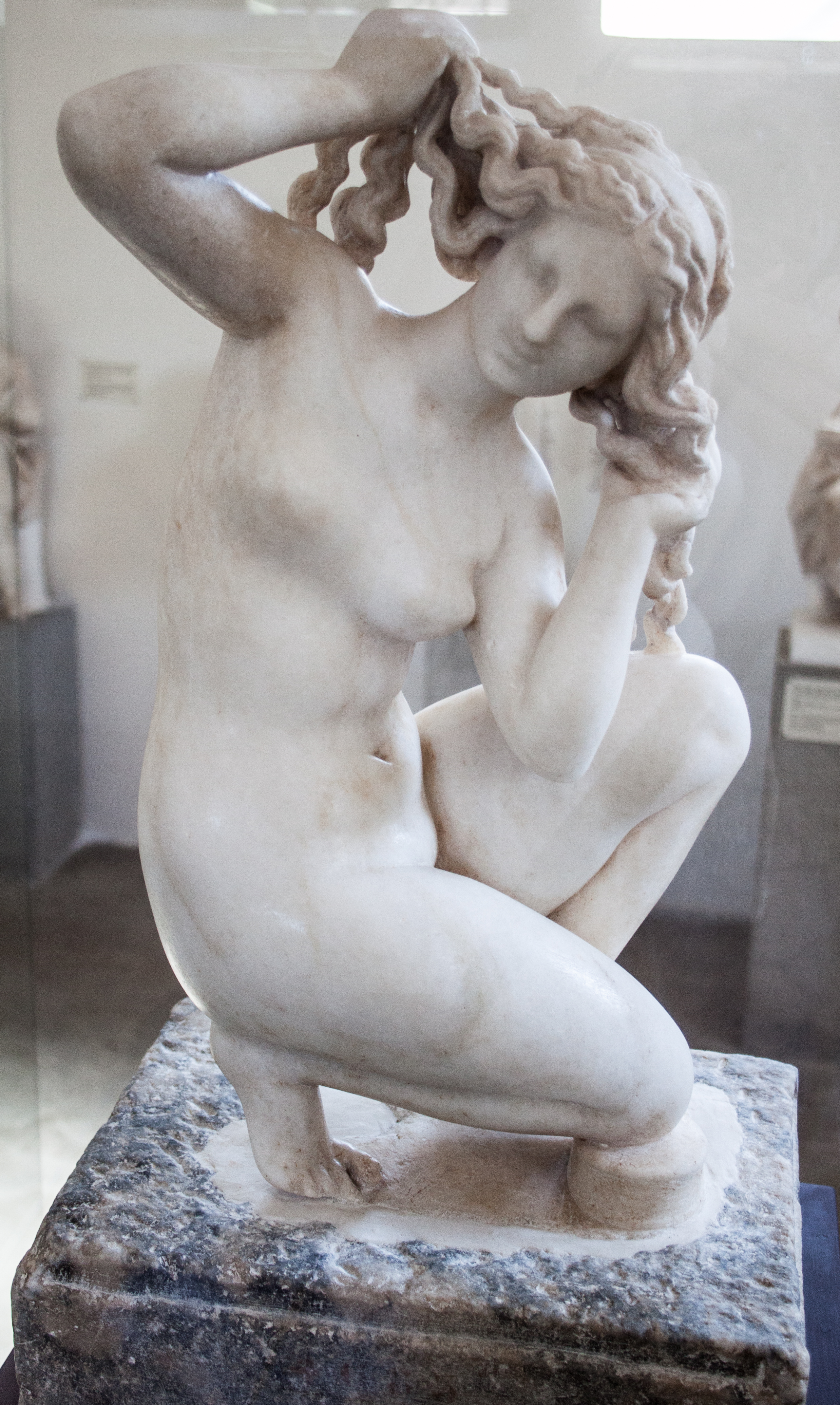 Remodelling of a statue type from the 3rd century BC, attributed to the sculptor Doidalsas